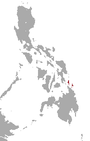 Dinagat Gymnure (Podogymnura aureospinula) range